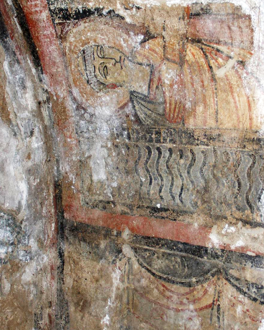 Crypt of San Marco dei Sabariani, Benevento, Italy. Picture of saint lying.